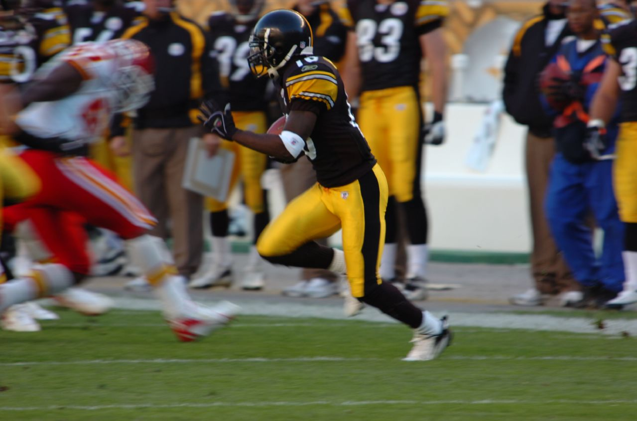 Santonio Holmes running after a reception - October 15, 2006